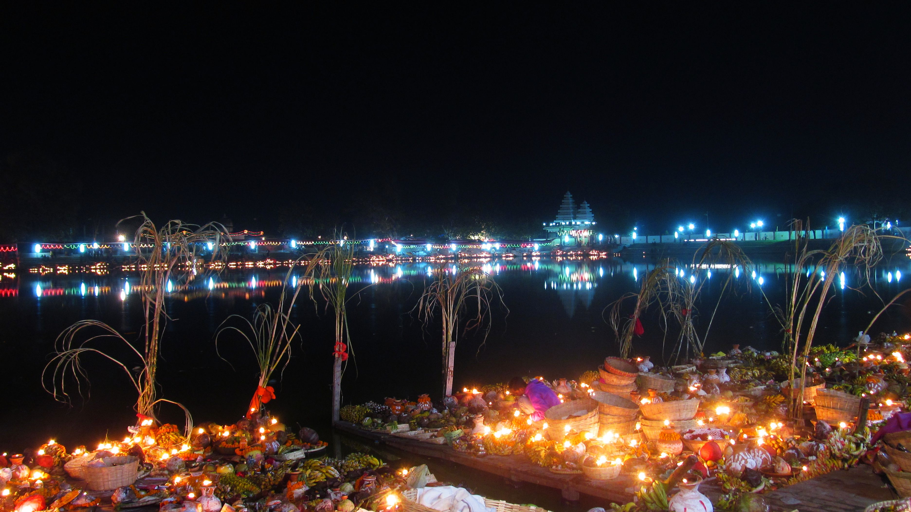 Chaith in Janakpur